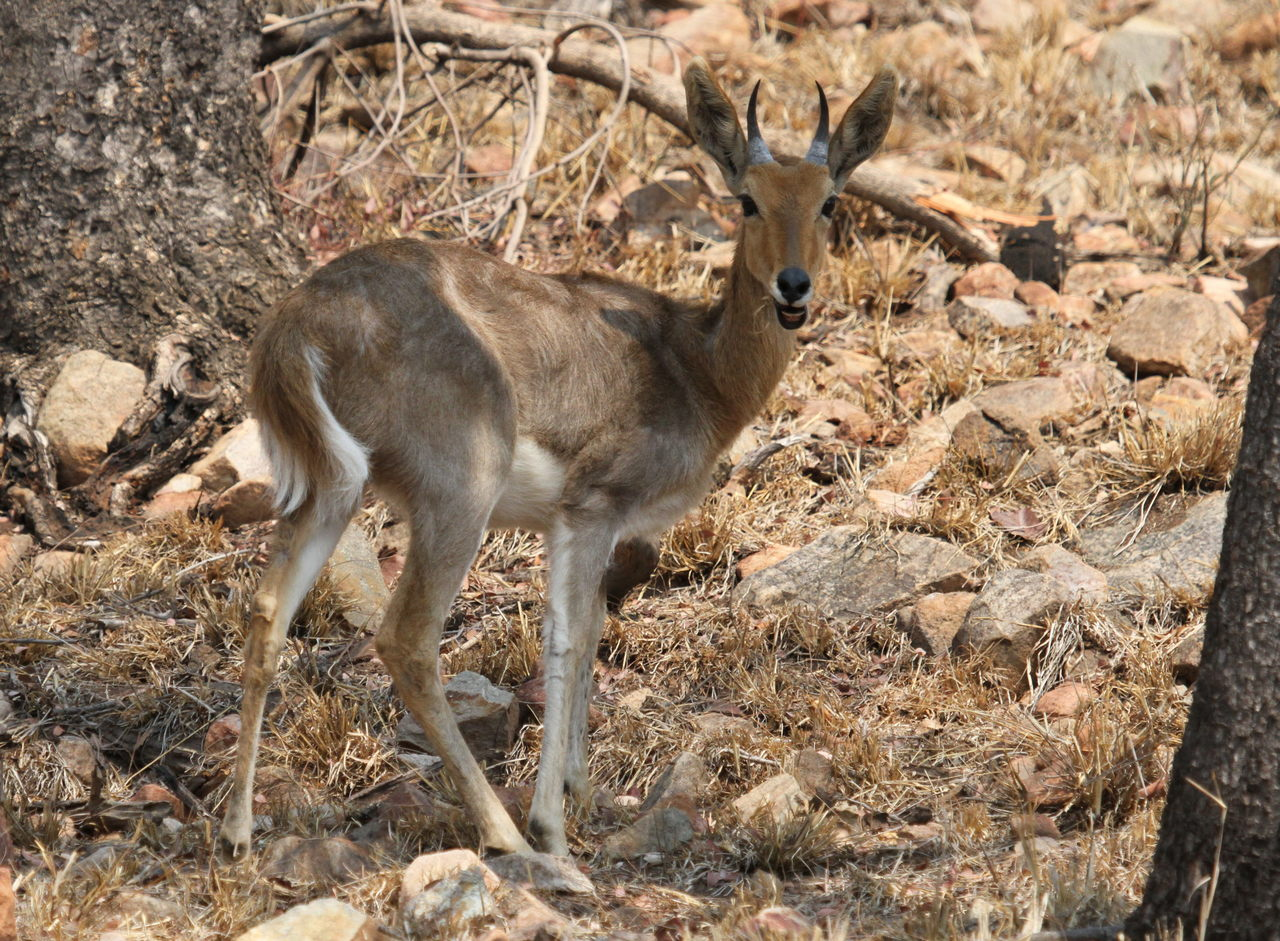 Mountain Reedbuck, Redunca flavorufula at Borakalalo National Park, South Africa